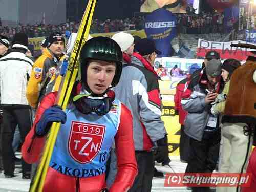 Wojciech Gasienica-Kotelnicki during FIS World Cup in Zakopane, 2006